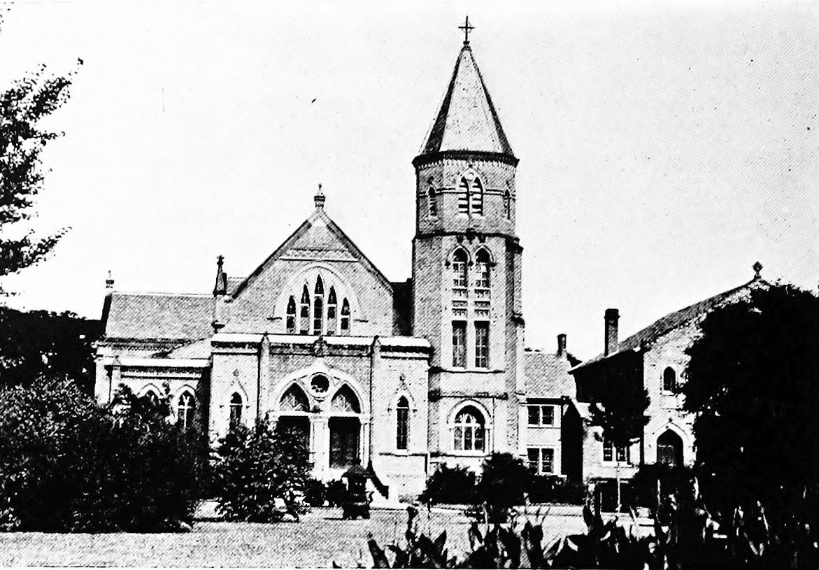 Photo from Peking, a social survey conducted under the auspices of the Princeton university center in China and the Peking Young men's Christian association (1921)